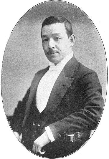 Masuzo Nomura